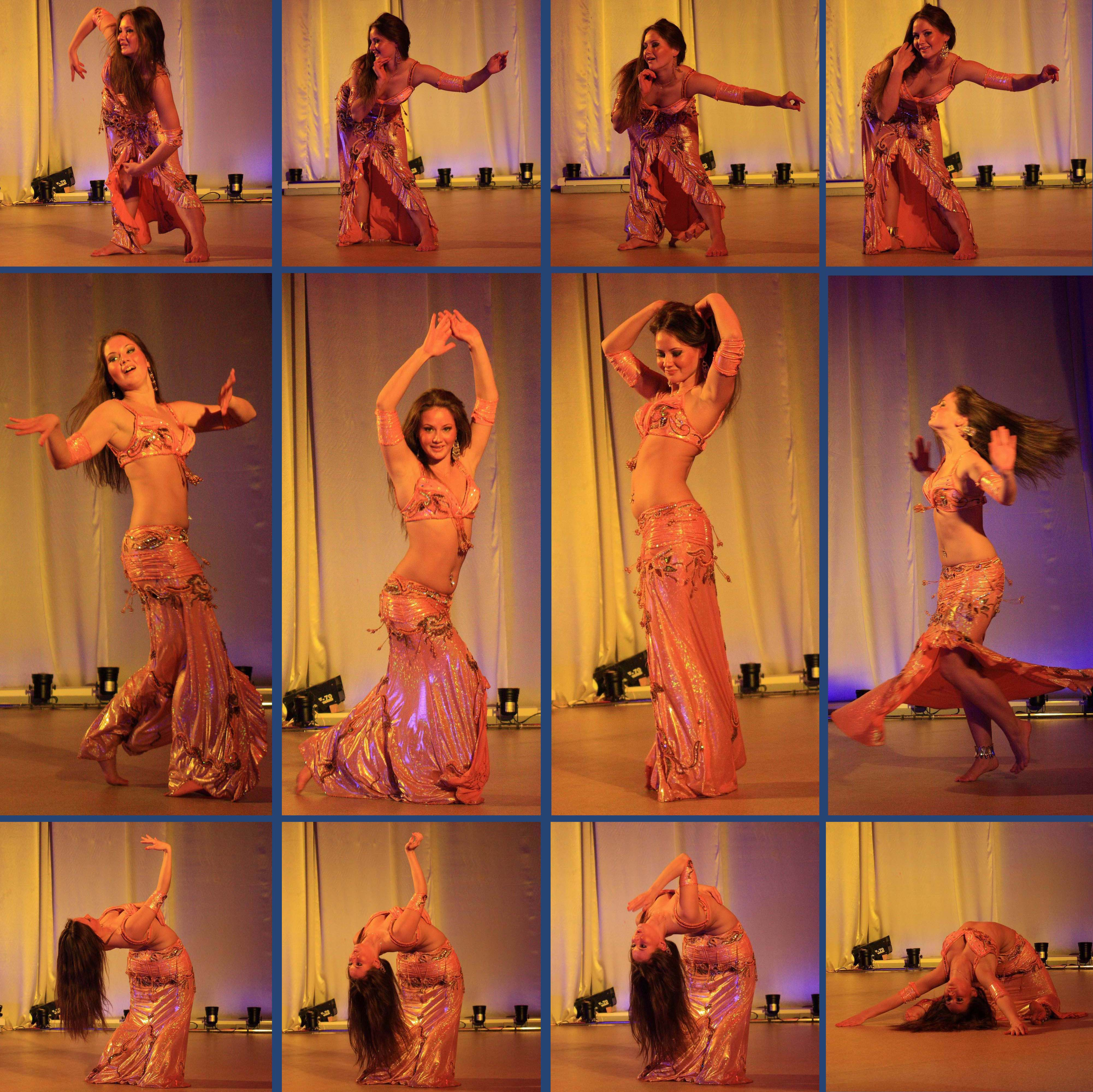 Belly dance